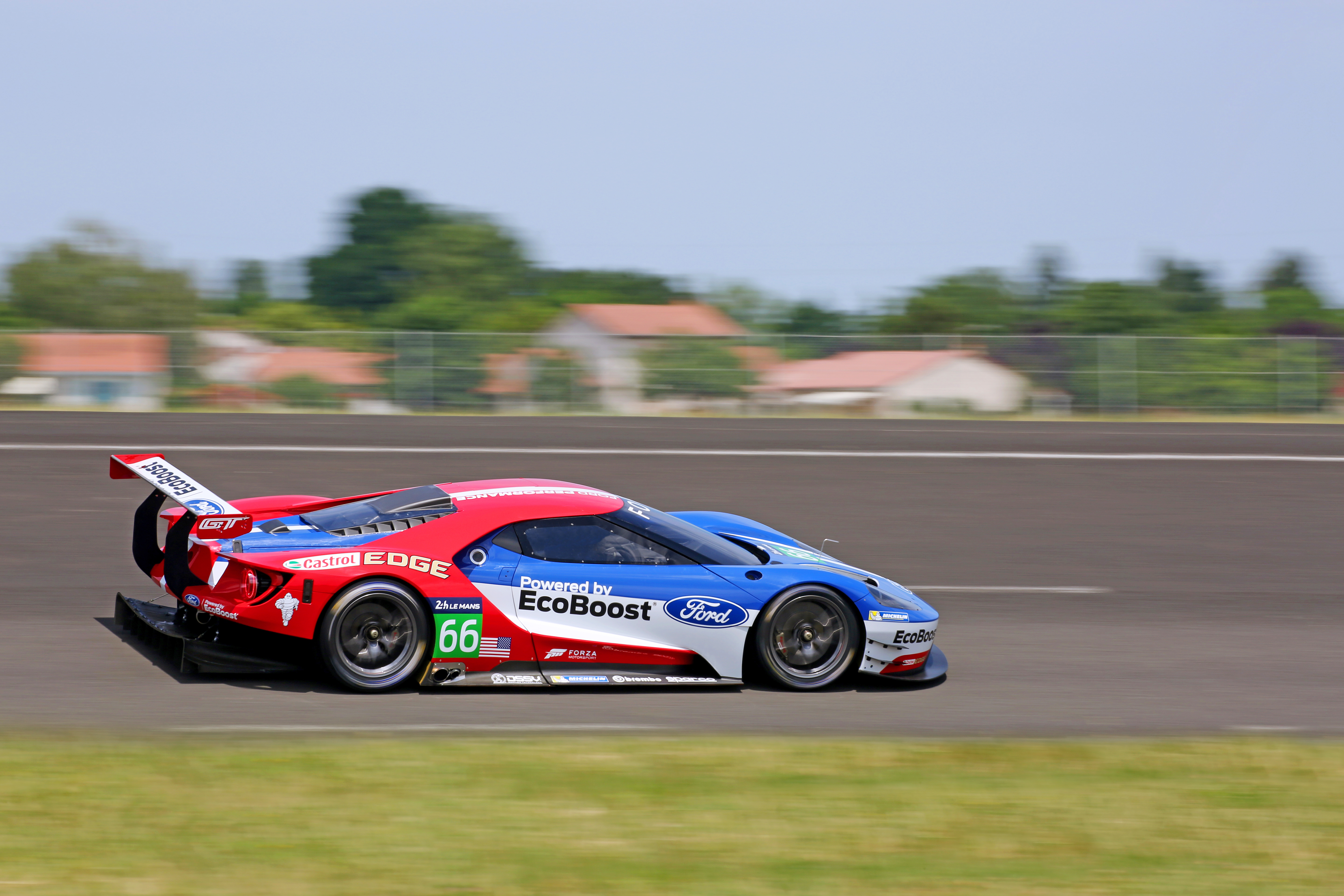 The new Ford GT LM GTE Pro for WEC and Le Mans competition unveiled today at Le Mans, France. The Ford LM GTE Pro race car will debut in 2016, and will be campaigned by Chip Ganassi Racing.